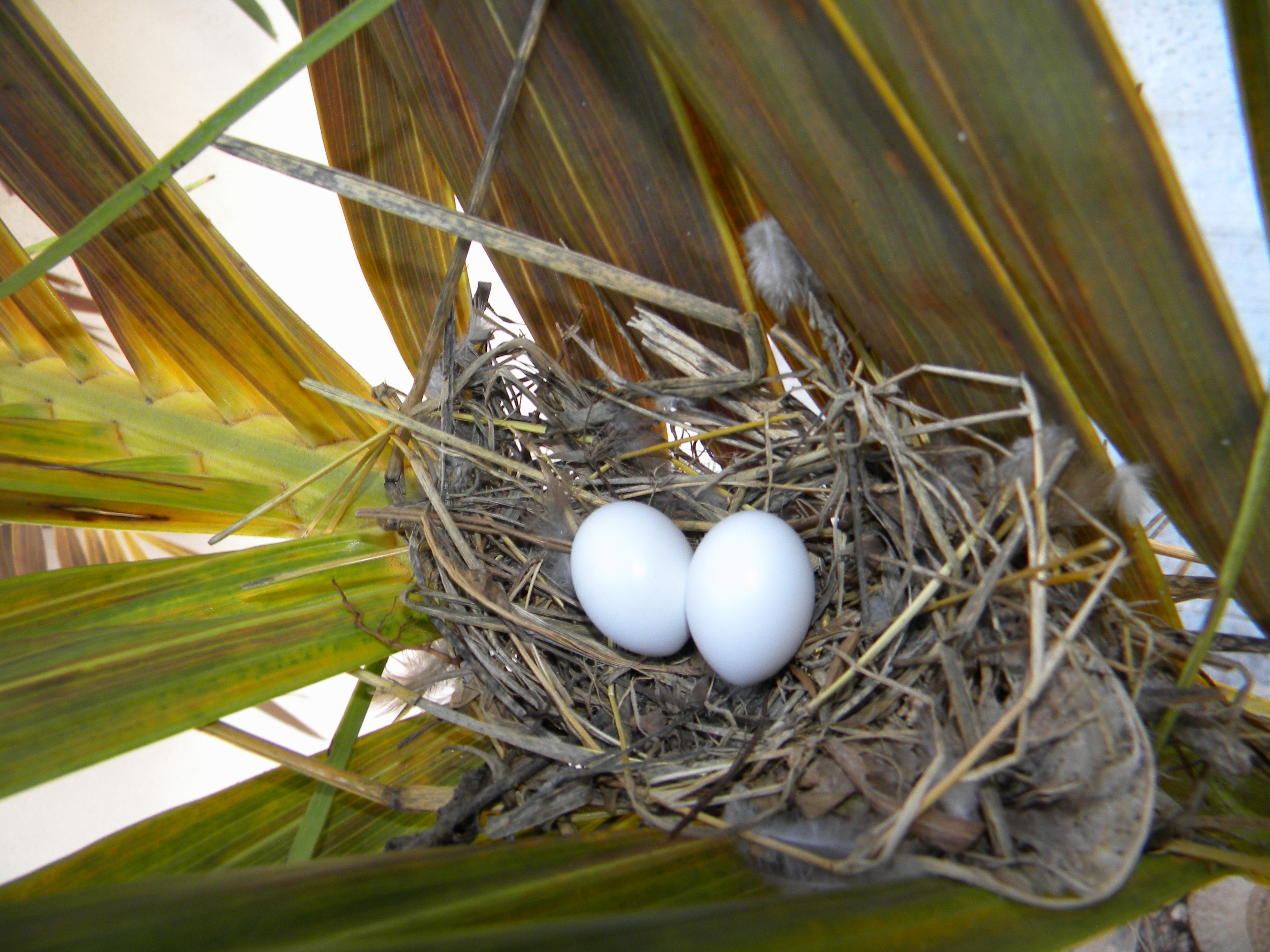 Columbina talpacoti nest with eggs